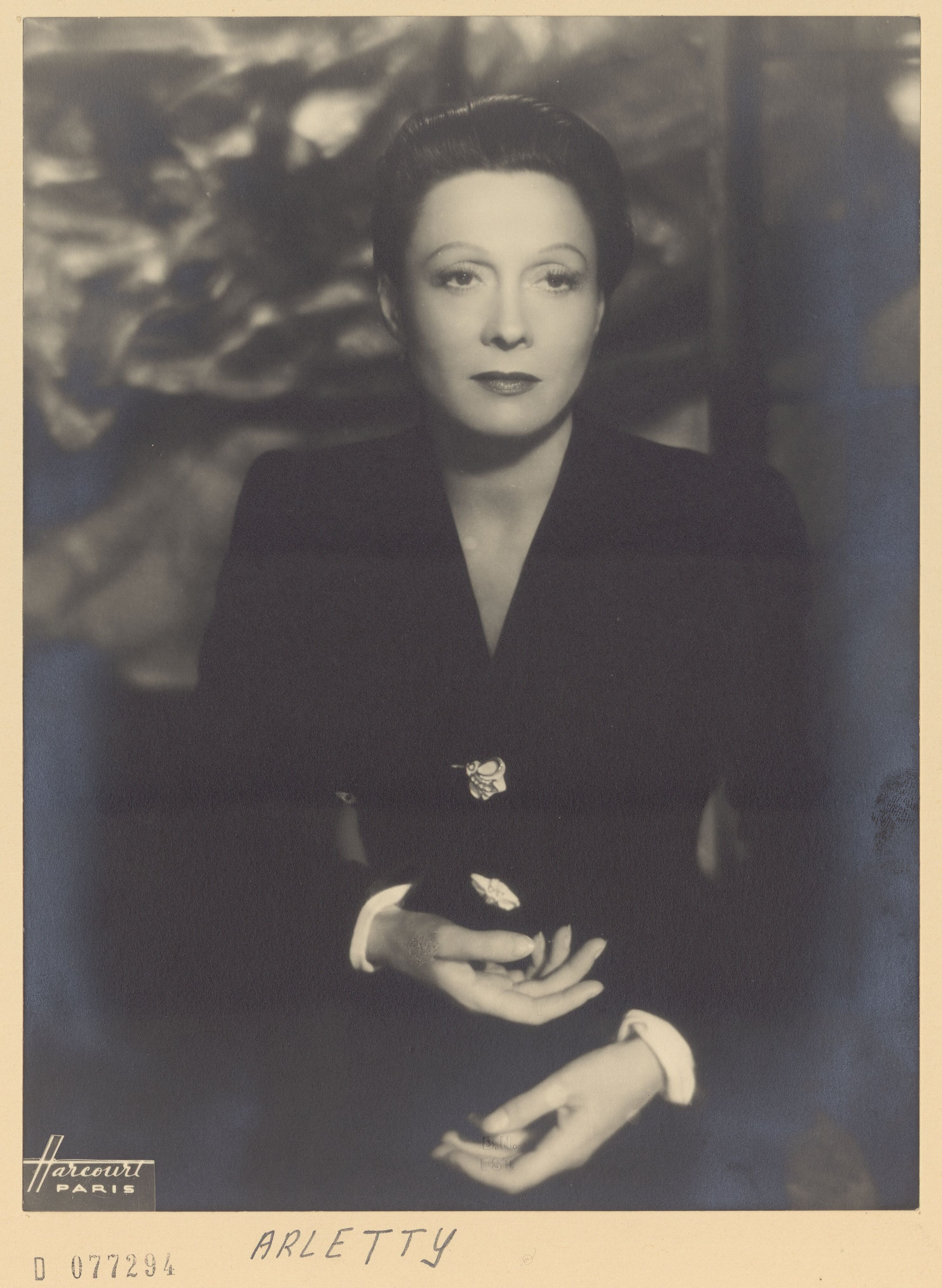 Portrait of the French actress Arletty ( 1898-1992 )